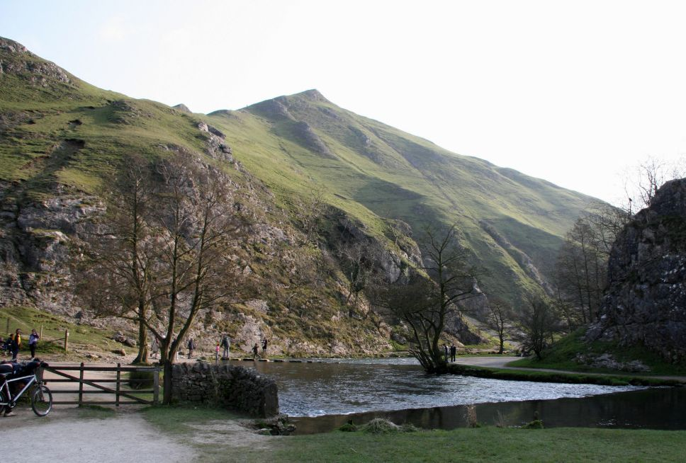 Thorpe Cloud viewed from Dovedale in Derbyshire